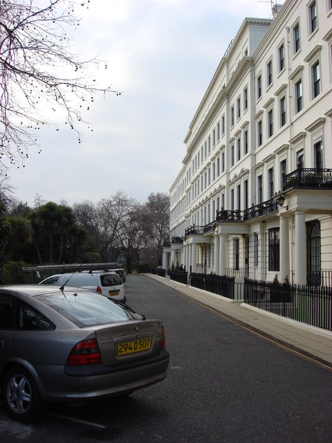 Hyde Park Gardens. Ann Thwaytes lived here at number 17 from 1840 until her death in 1866. She was a philanthropist who funded the erection of the Clock Tower, Herne Bay, Kent and the 1853-1855 repairs to St. Mary's Church, Broadwater